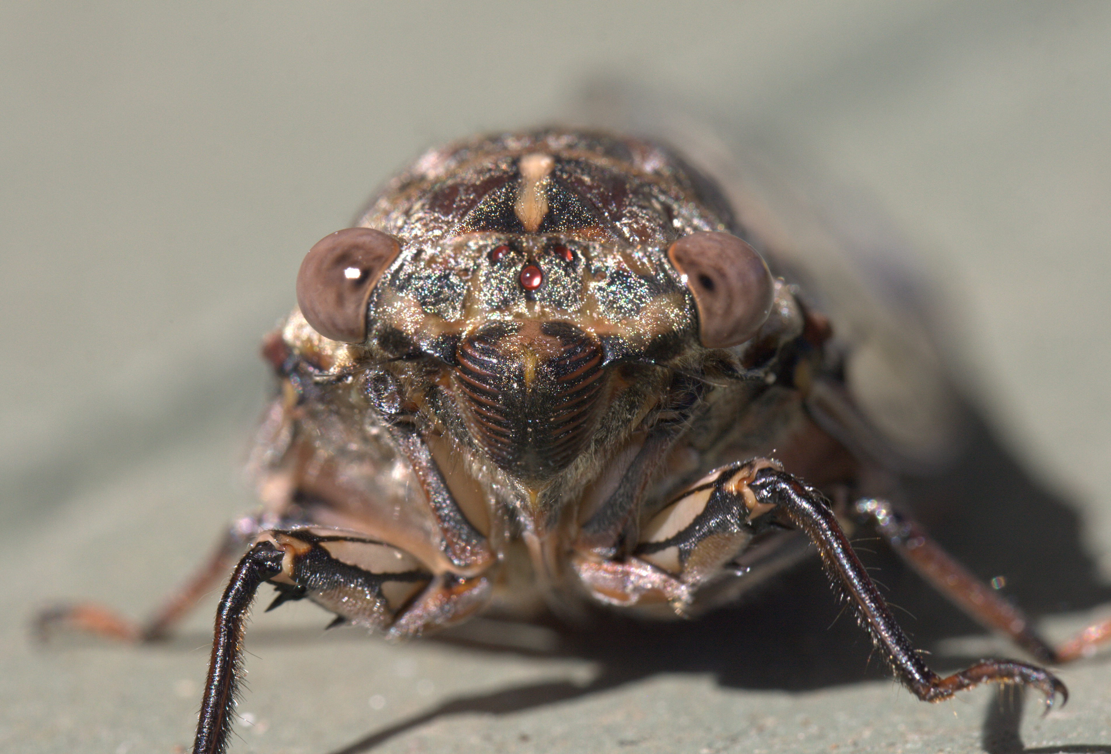 Henicopsaltria eydouxii face